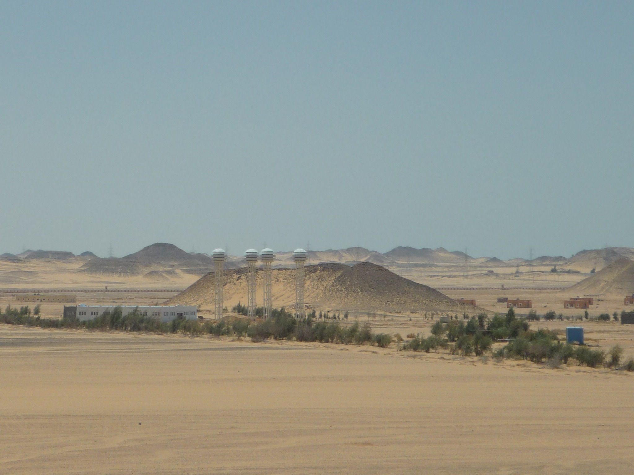 New town of Toshka in New Valley project, Libyan desert, Egypt